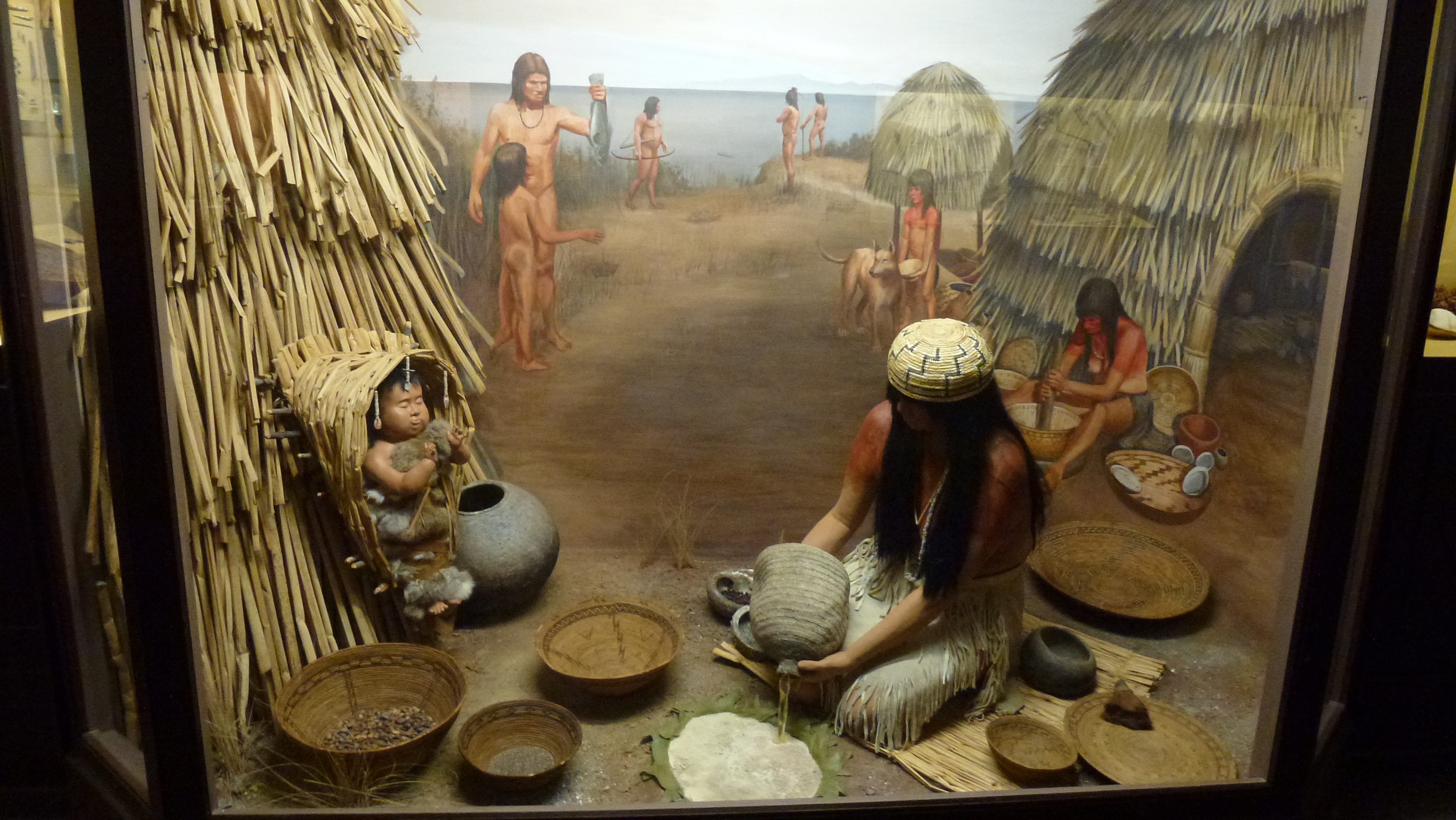 Diorama showing a Chumash Indian mother and baby